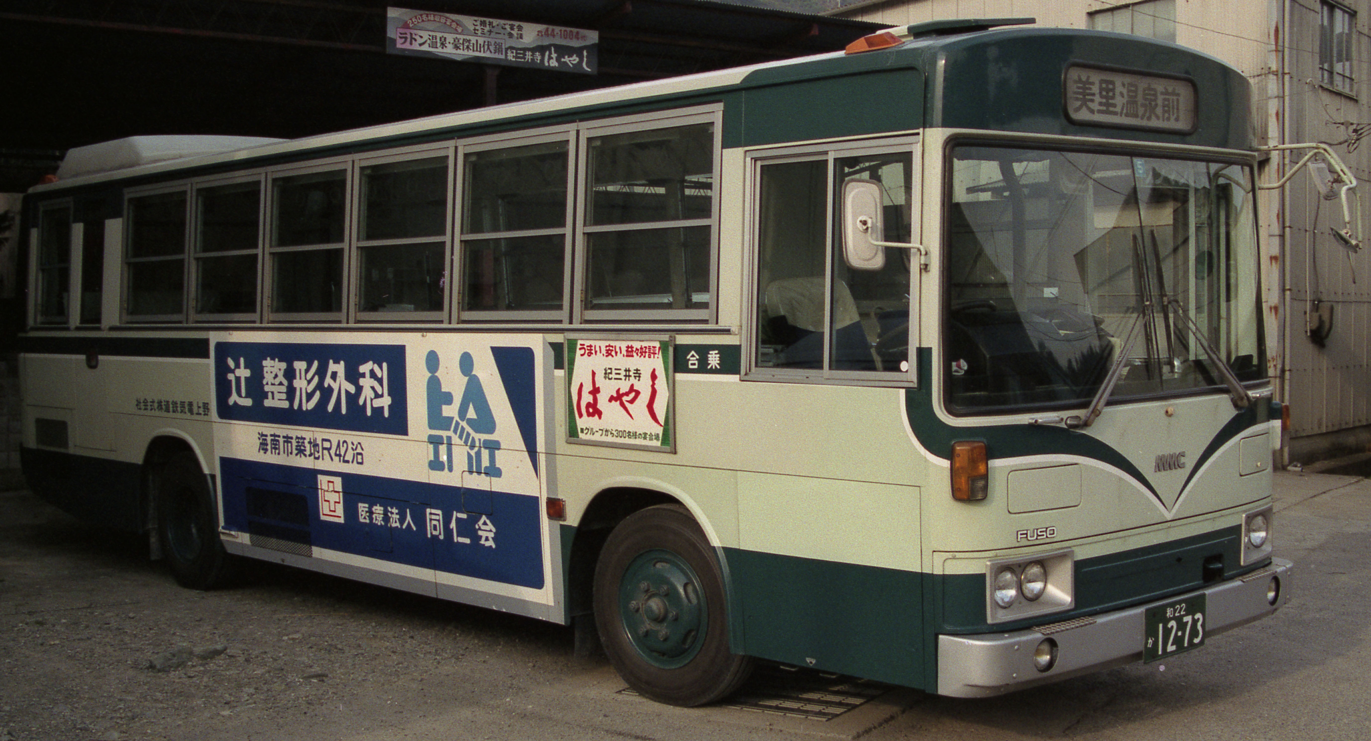 Omnibus of Nokami Electric Railway(defunct company)